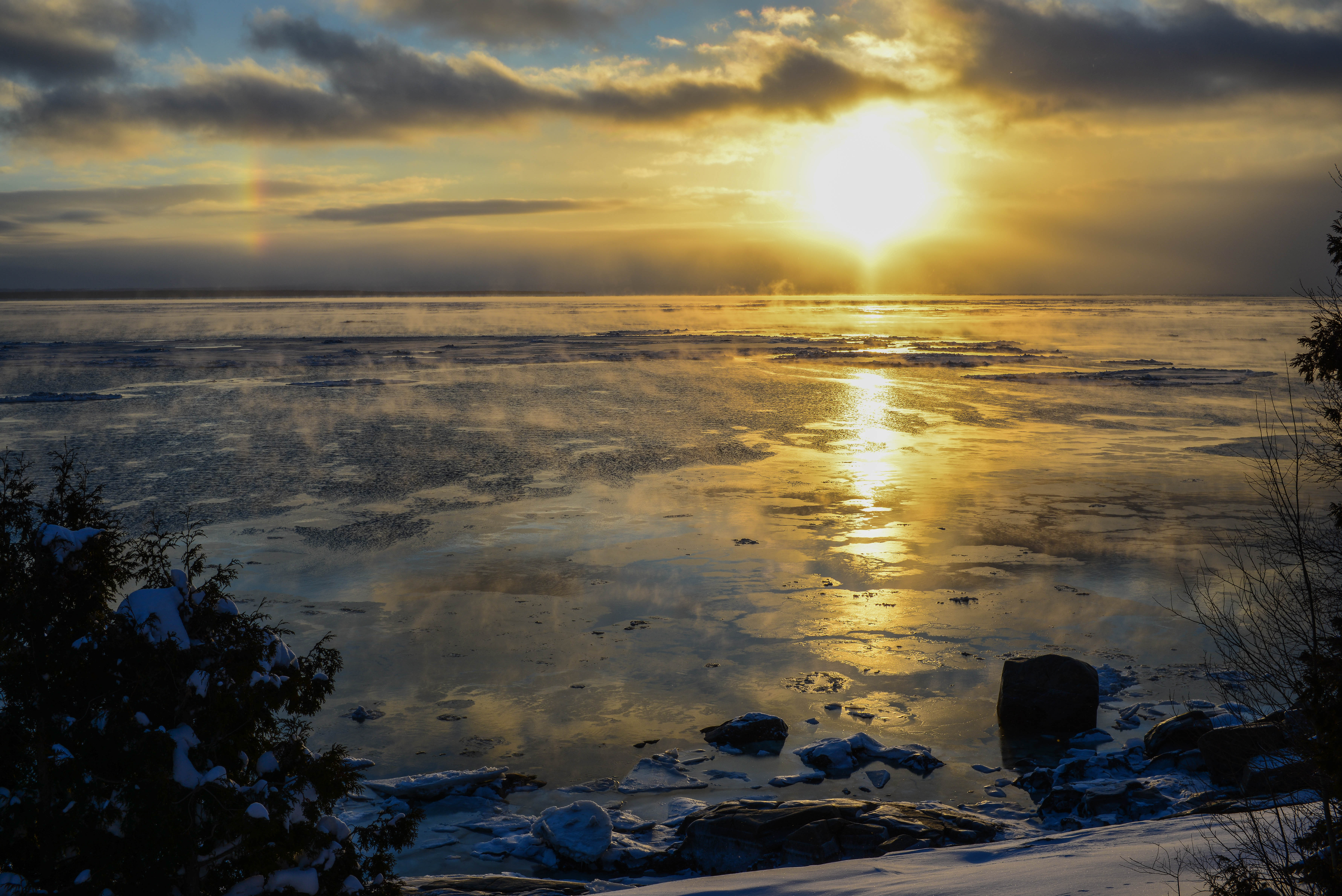 January sunrise in St-Siméon, Charlevoix, Québec